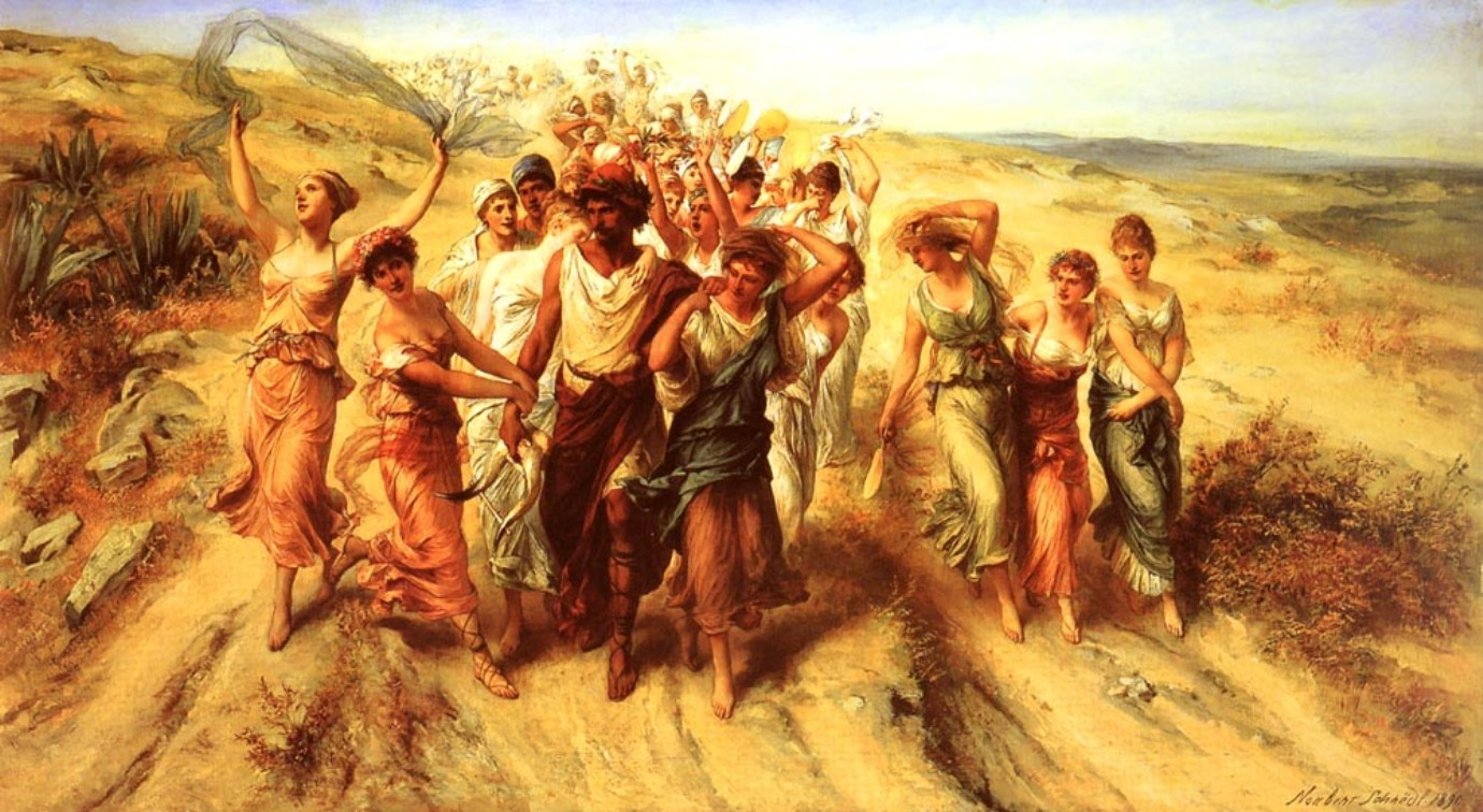 The Poet Anacreon with his Muses